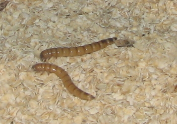 Giant Mealworms (Zophobas morio)